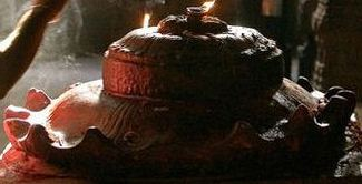 Bali Peetam